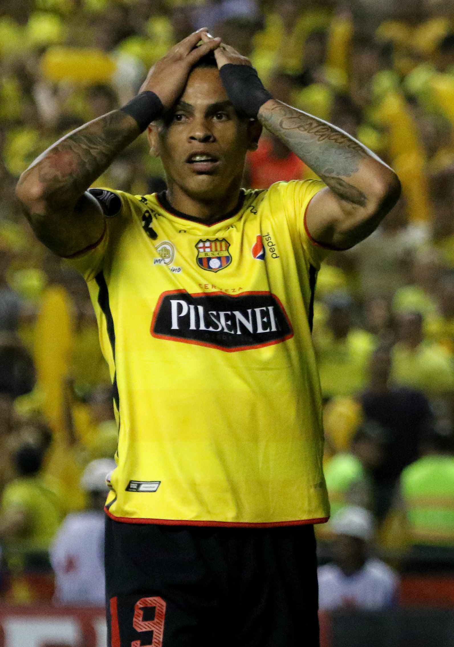 Guayaquil, 13 de septiembre del 2017 (Andes).-En el estadio Monumental Barcelona de Ecuador enfrenta al Santos de Brasil en partido de ida por cuartos de final de la Copa LibertadoresFoto:Andes/César Muñoz